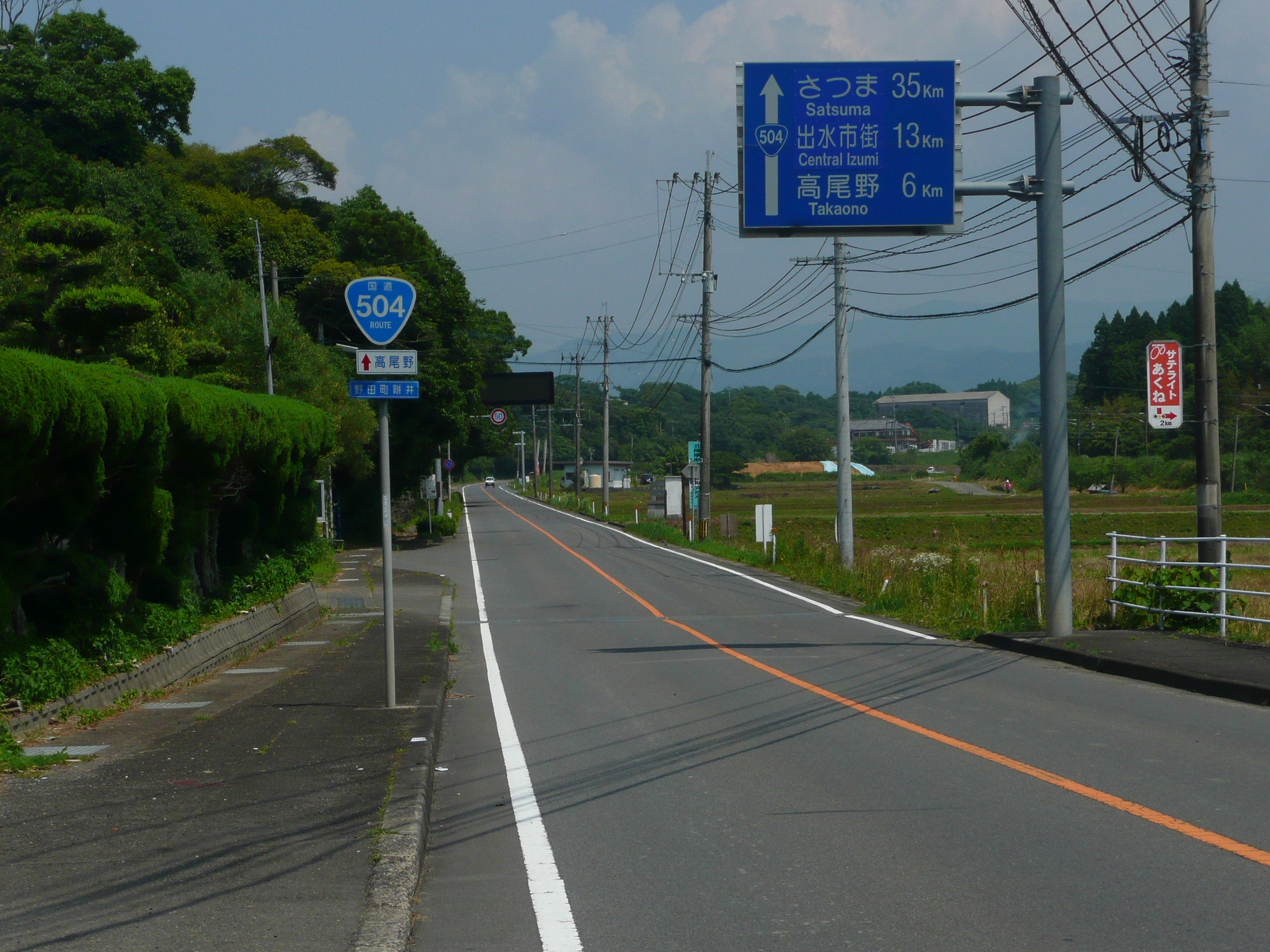 National Route 504 Ends (Noda, Izumi City, Japan)